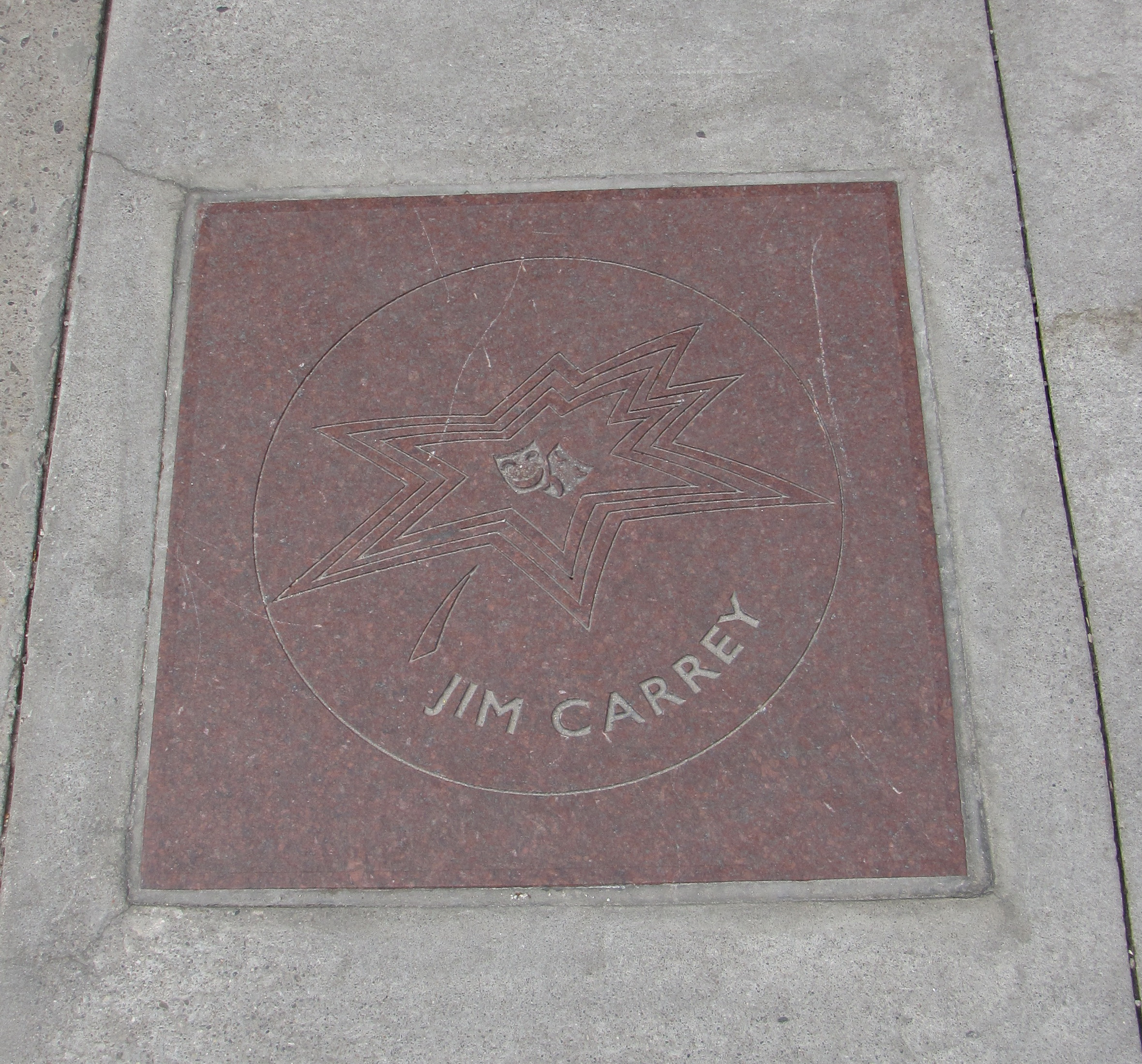 Jim Carrey's star on Canada's Walk of Fame